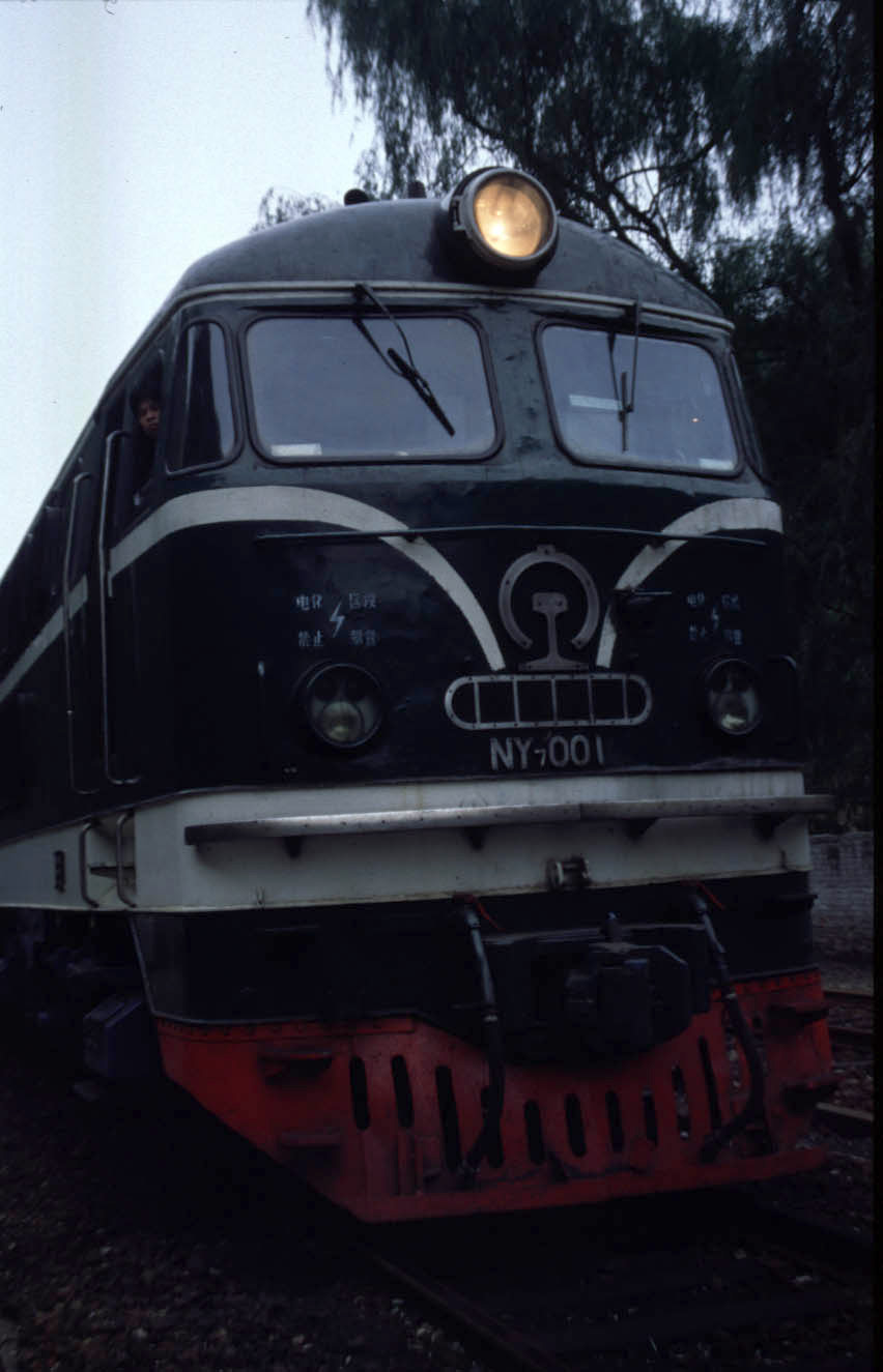 chinese train, but made in east germany